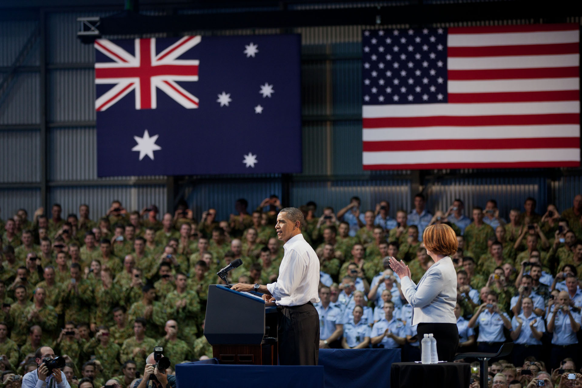 President Barack Obama delivers remarks honoring 60 years of the U.S. and Australian Alliance to a crowd of some 2000 soldiers and guests at RAAF Base Darwin in Darwin, Australia, Nov.17, 2011. Australian Prime Minister Julia Gillard is standing behind President Obama.